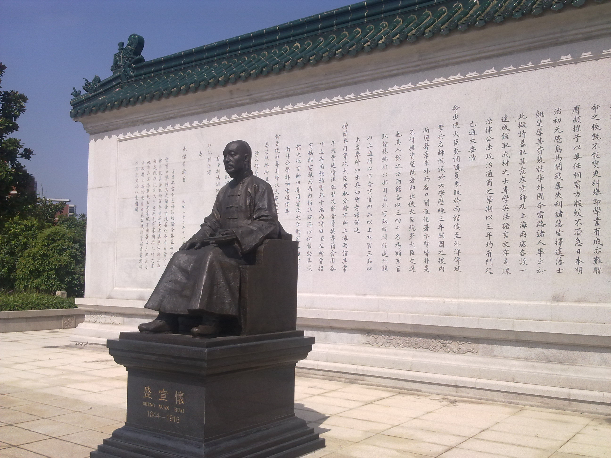 Statue of Sheng Xuanhuai at SJTU, Minhang campus.